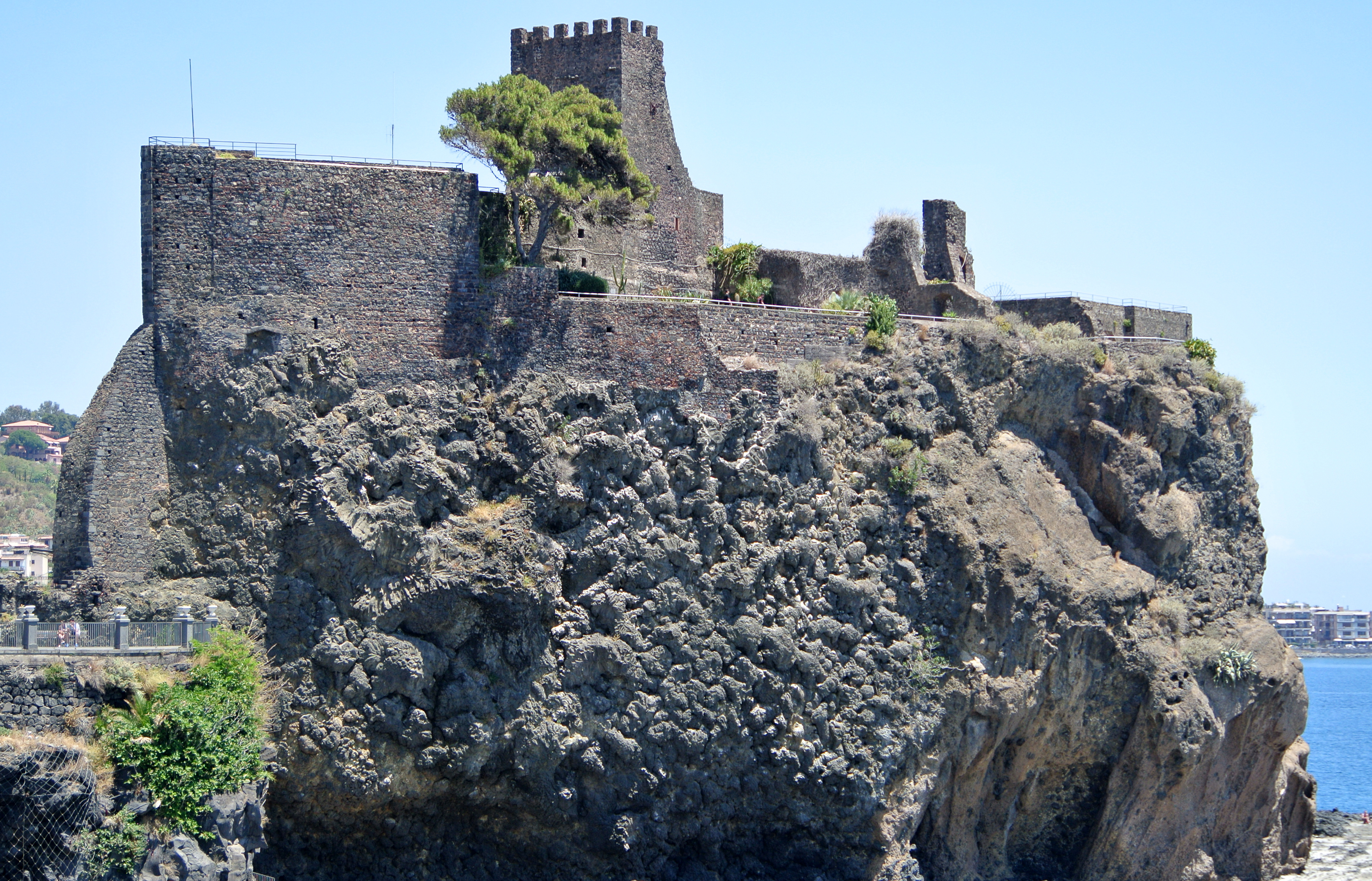 Norman castle at Aci Castello, Sicily, Italy.